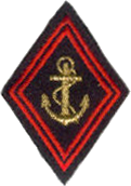 Shoulder patch of Marine Troops(France).